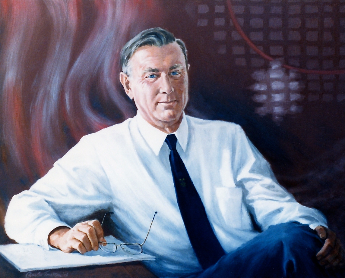 Image of a painted portrait of a seated man (Dr Paul Wild, eminent Australian scientist) wearing a white shirt and black tie, holding spectacles, looking towards the viewer. Behind him on a maroon background are painted images associated with Dr Wild's discoveries in radiophysics: swirling shapes of solar winds on the left and, on the right, an image captured in his early research.